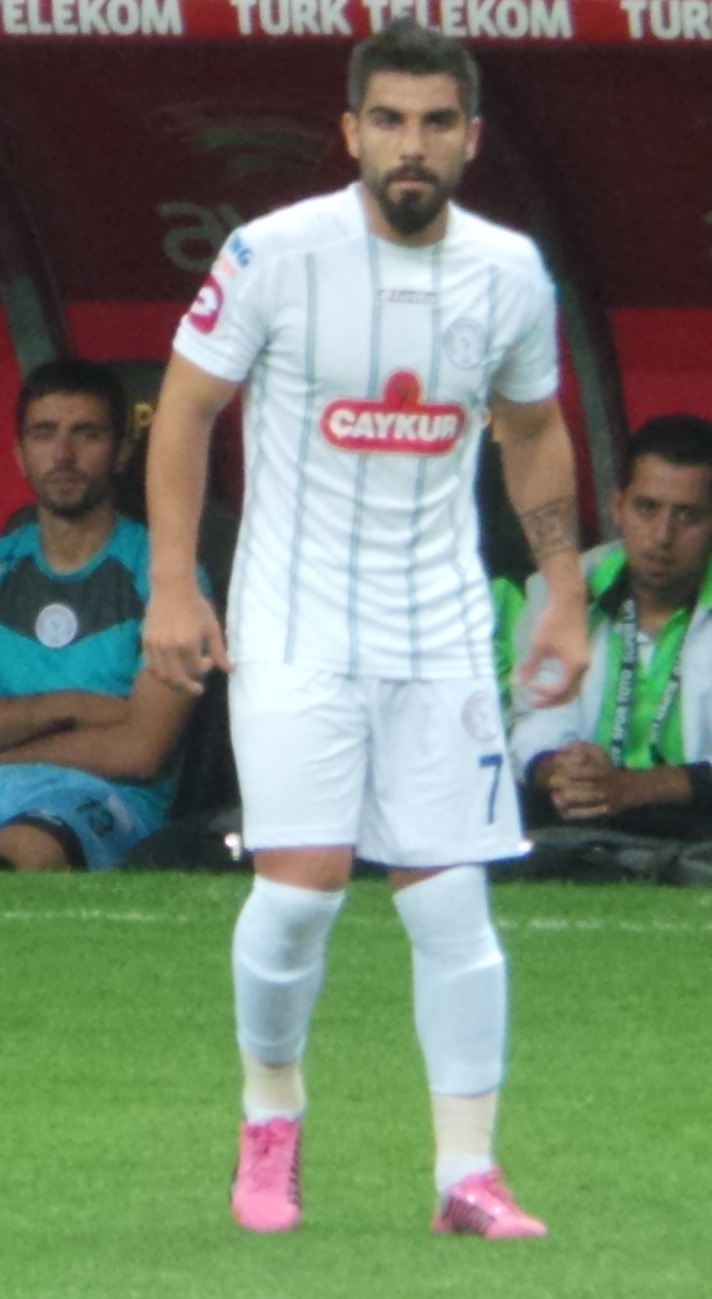 Sercan Kaya with rise